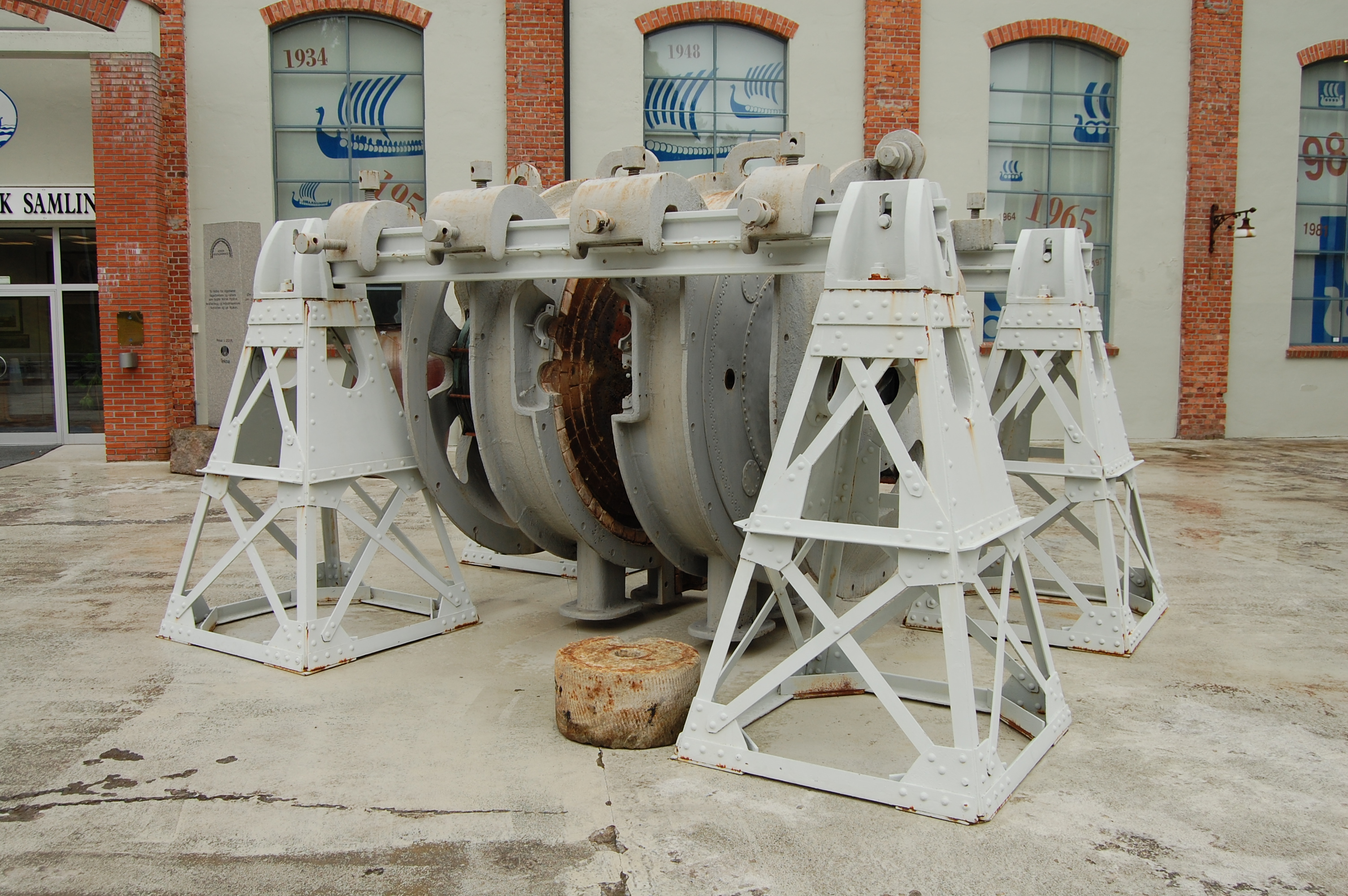 Birkeland–Eyde furnace (1905) exhibited in Notodden, Norway